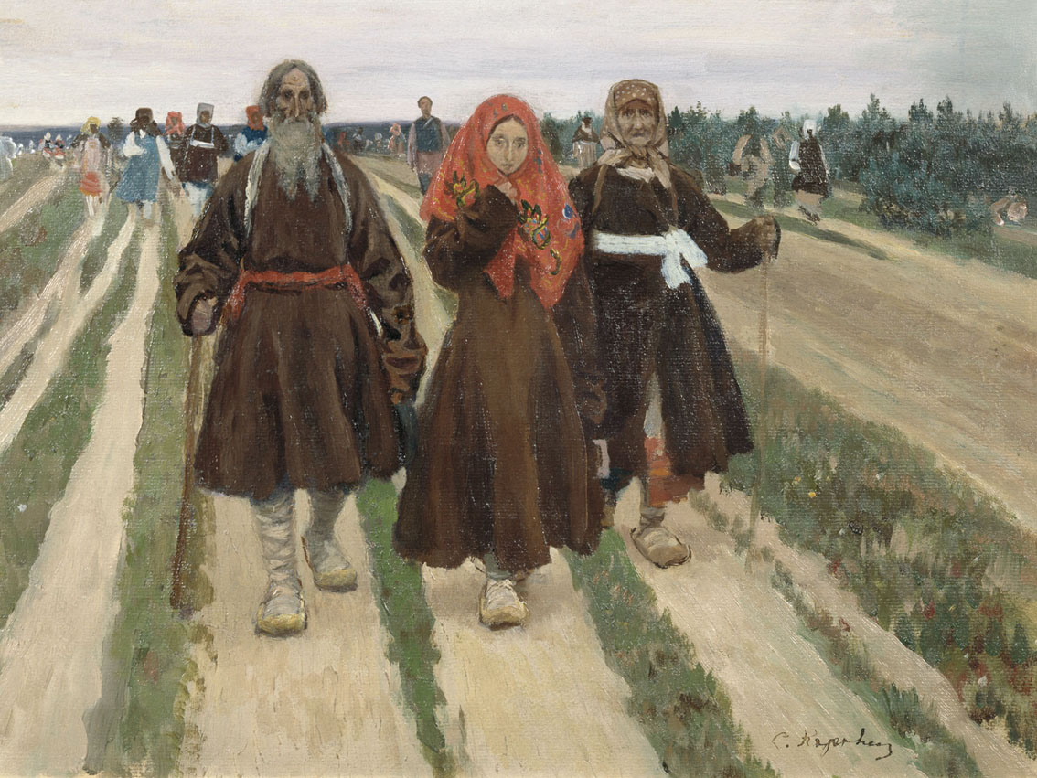 To the Pentecost